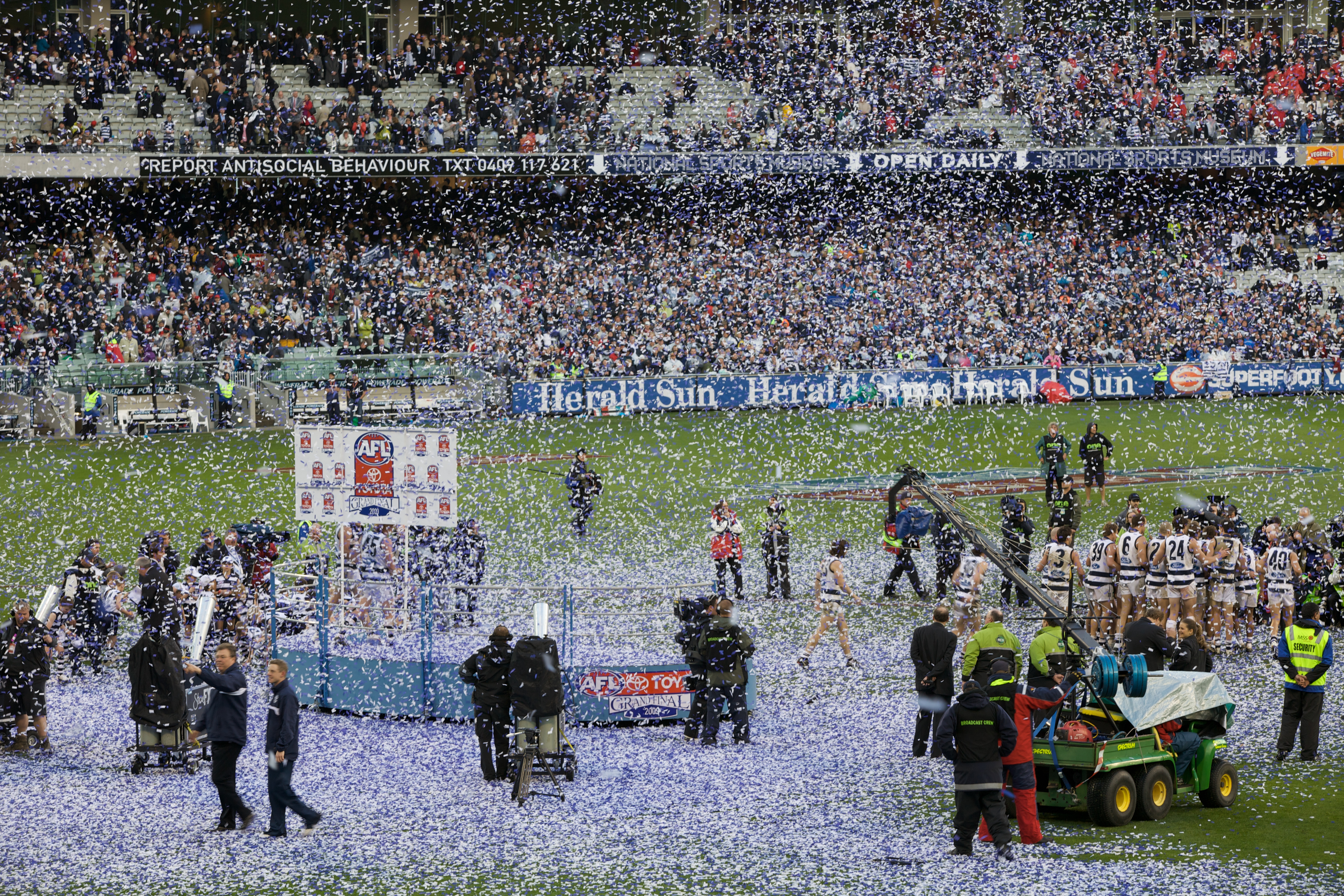 2009 AFL Grand Final trophy presentation, during which the Wikipedia:Geelong Football Club was crowned premiers.